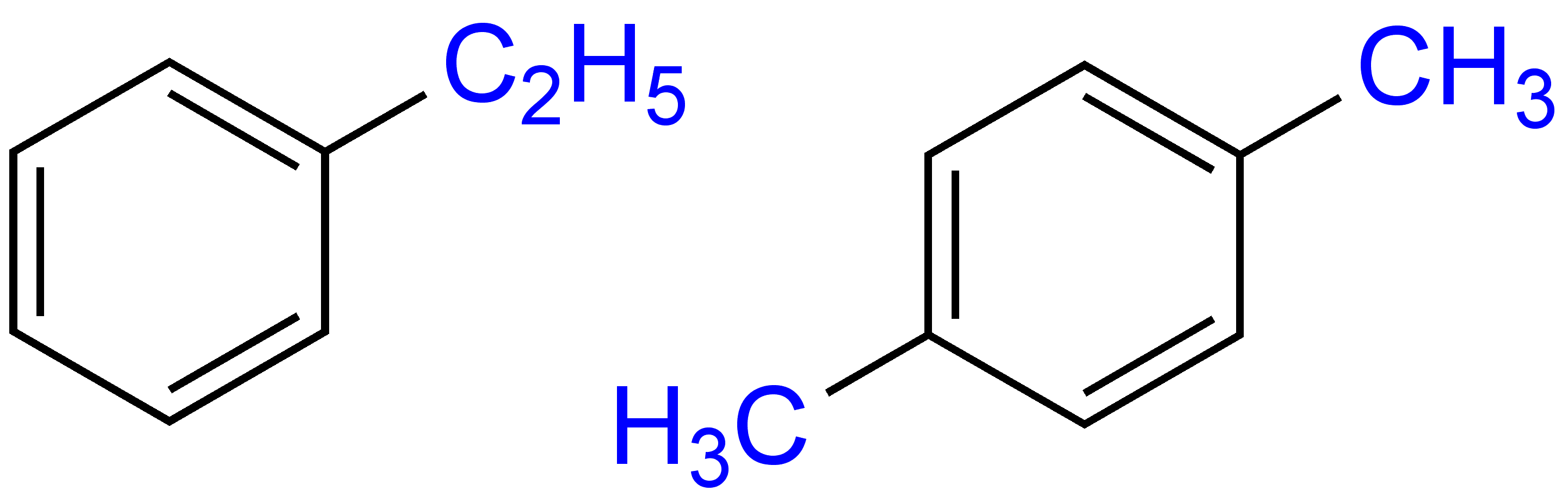 Side_Chain: Alkylated aramatic compounds